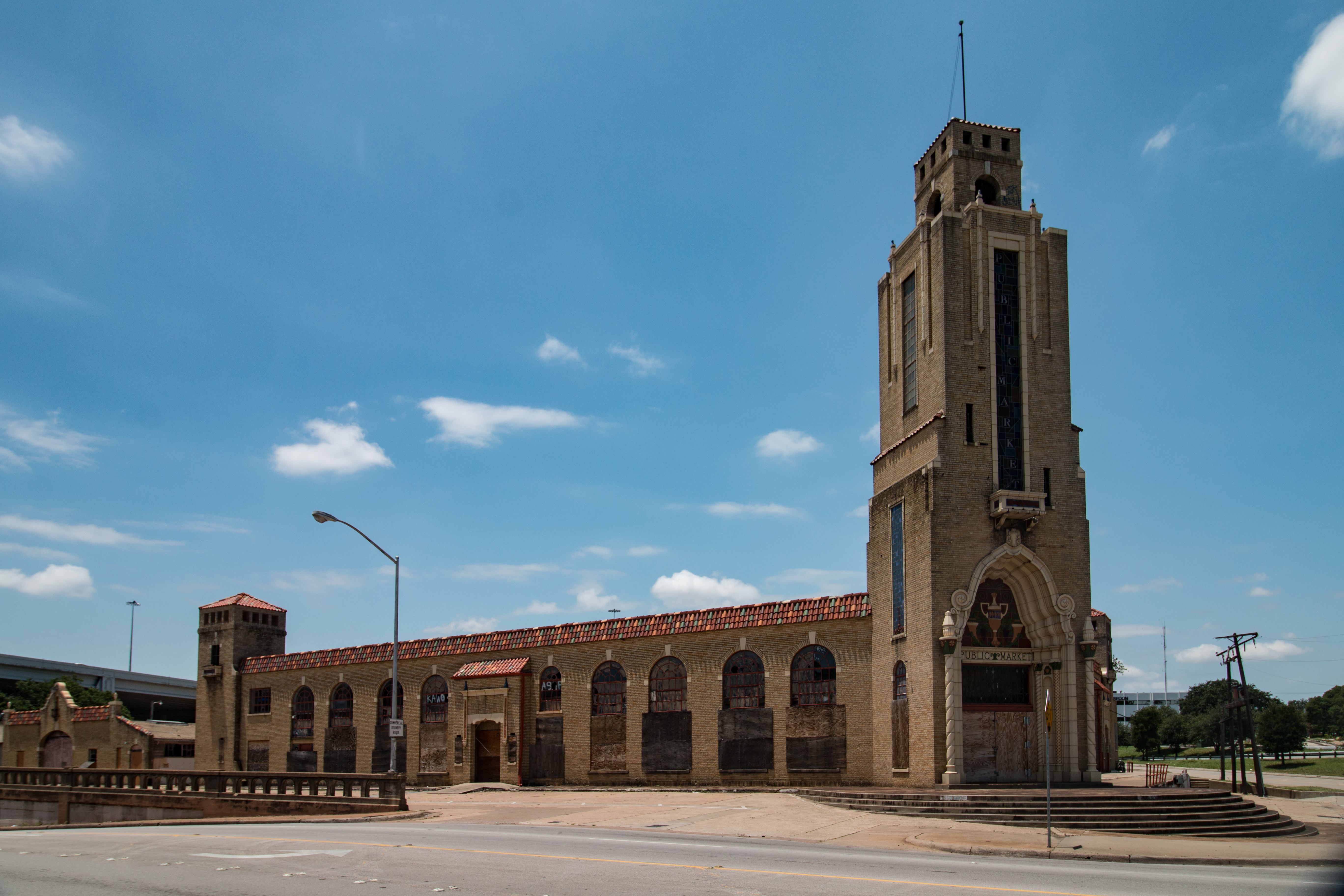 Fort Worth Public Market Building in Fort Worth, Texas